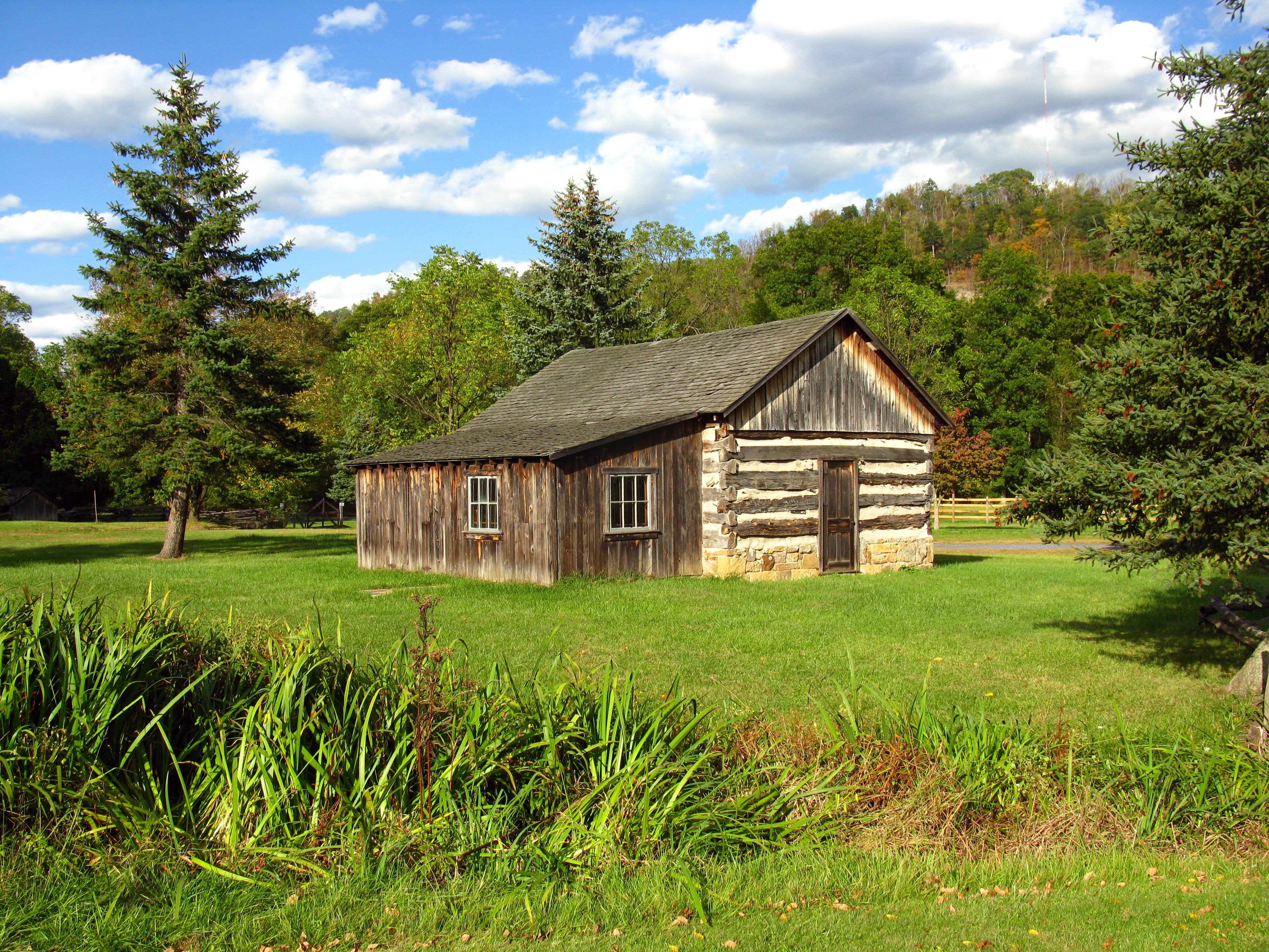 Reconstructed building (built in the mid-to-late 1970s) on the grounds of the Old Bedford Village outdoor museum, located north of the city of Bedford in Bedford Township, Bedford County, Pennsylvania, United States. The village lies on top of a significant archaeological site, known as Site 36BD90; it is listed on the National Register of Historic Places.